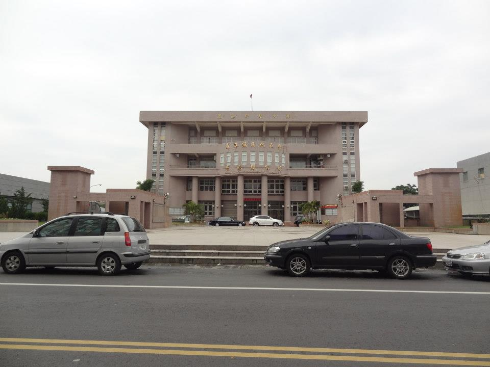 Lukang Township Office, Changhua County.